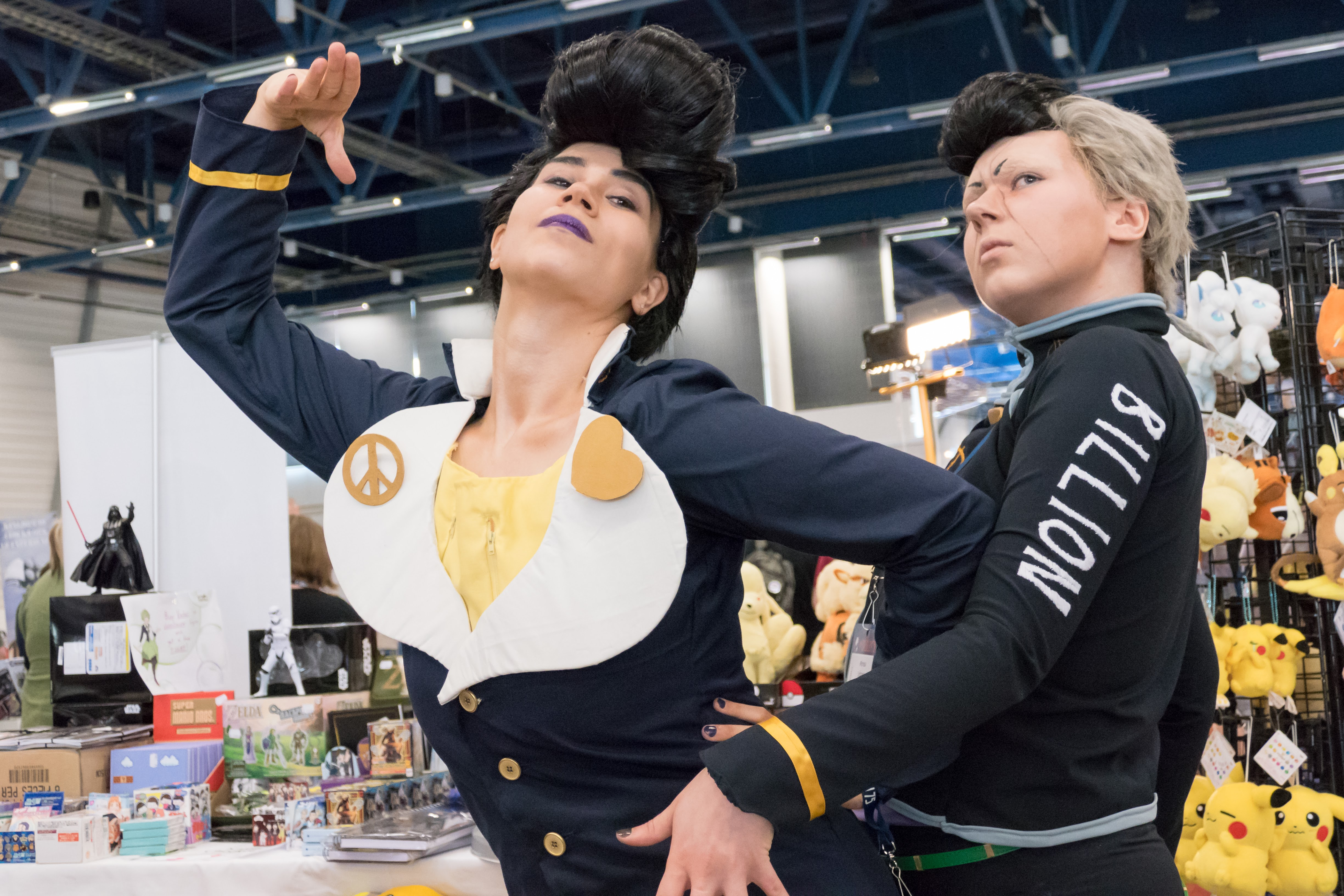 World Science Fiction Convention in Helsinki, 2017. Josuke Higashikata and Okuyasu Nijimura (JoJo's Bizarre Adventure)